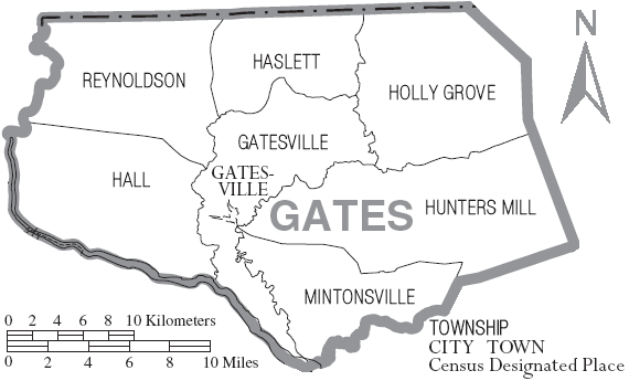 Map of Gates County, North Carolina, United States with township and municipal boundaries